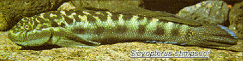 Sicyopterus stimpsoni